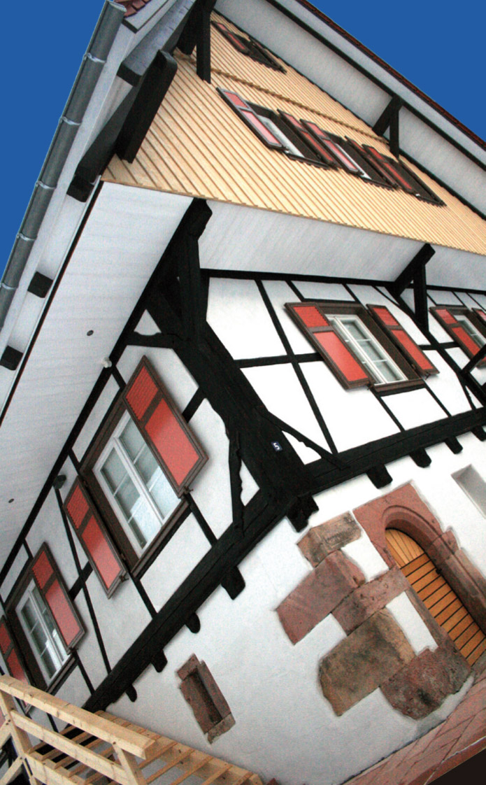 Picture of MiMa, museum for minerals and mathematics Oberwolfach